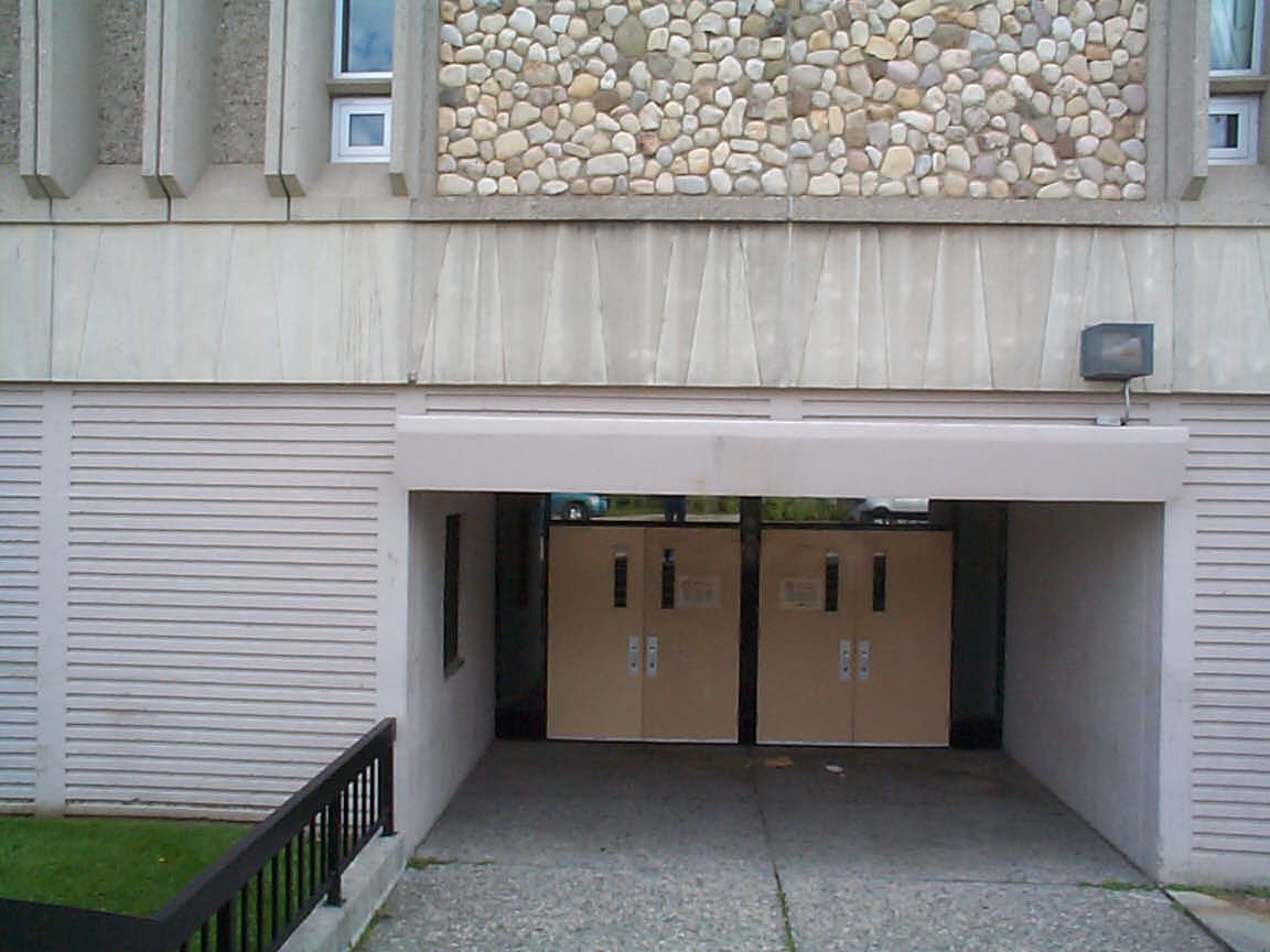 Bishop Grandin High School, 111 Haddon Road SW Calgary, Alberta, Canada T2V 2Y2. Operated by the Calgary Catholic School District.